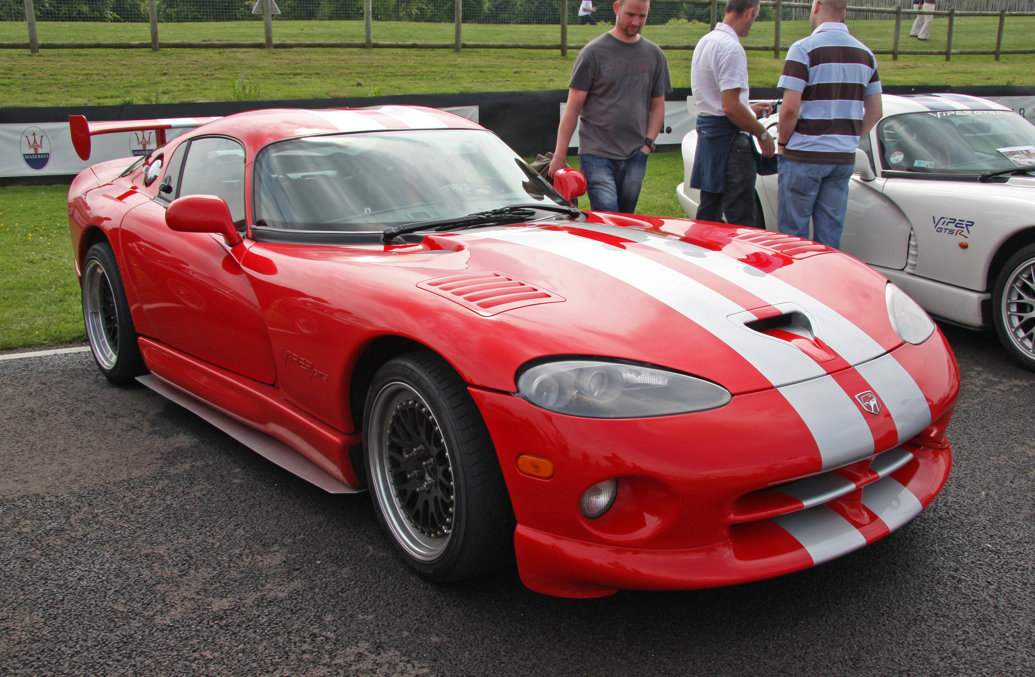 A Red/Silver Dodge Viper GTS coupé at the Goodwood Breakfast Club June 2008.